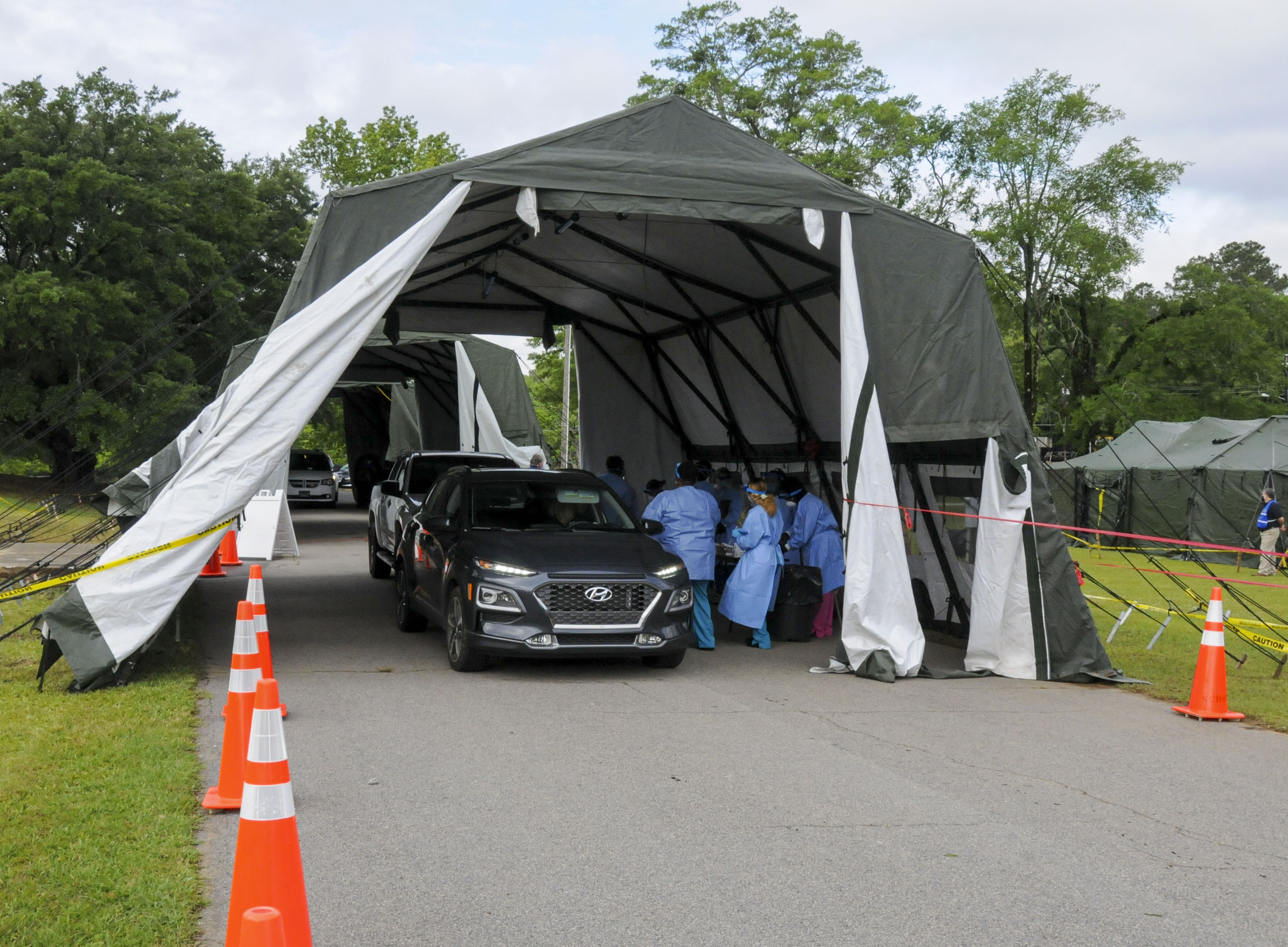 U.S. Army National Guard Soldiers with the South Carolina National Guard constructed maintenance tents in support of South Carolina Department of Health and Environmental Control in Society Hill, South Carolina, May 5, 2020, to provide administrative and in-processing areas for COVID-19 screenings. The South Carolina National Guard remains ready to support the counties, state and local agencies, and first responders with requested resources for as long as needed in support of COVID-19 response efforts in the state. (U.S. Army National Guard photo by Sgt. Tim Andrews, South Carolina National Guard)